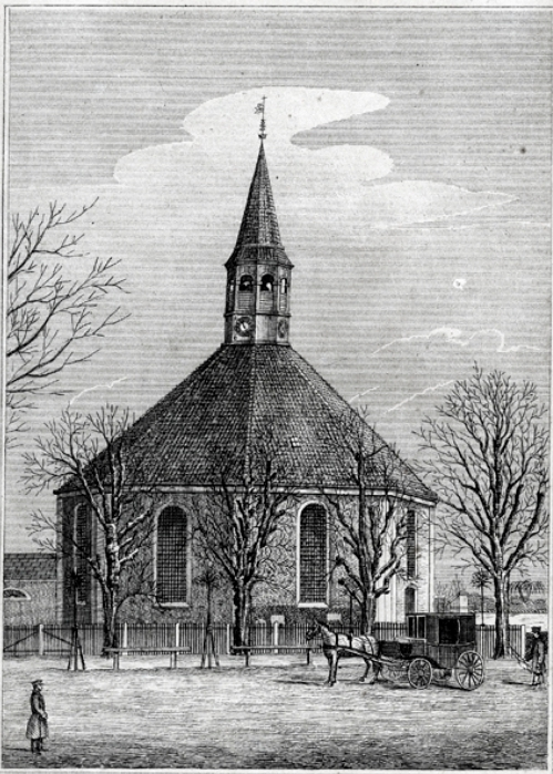 Frederiksberg Church viewed from Frederiksberg Runddel in Frederiksberg, Copenhagen, Denmark